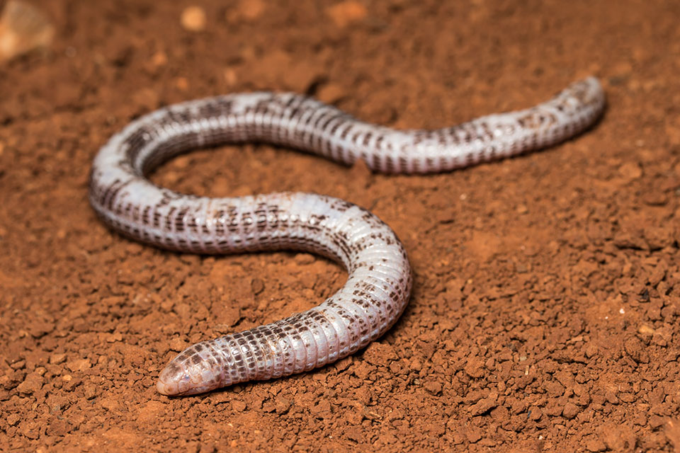 Konstantinos Kalaentzis Blanus strauchi Kastellorizo